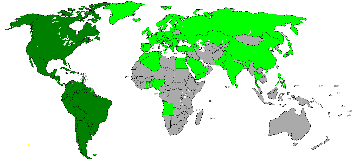 Organization of American States - Members and Observers